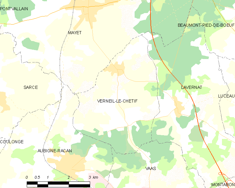 Map of French municipality